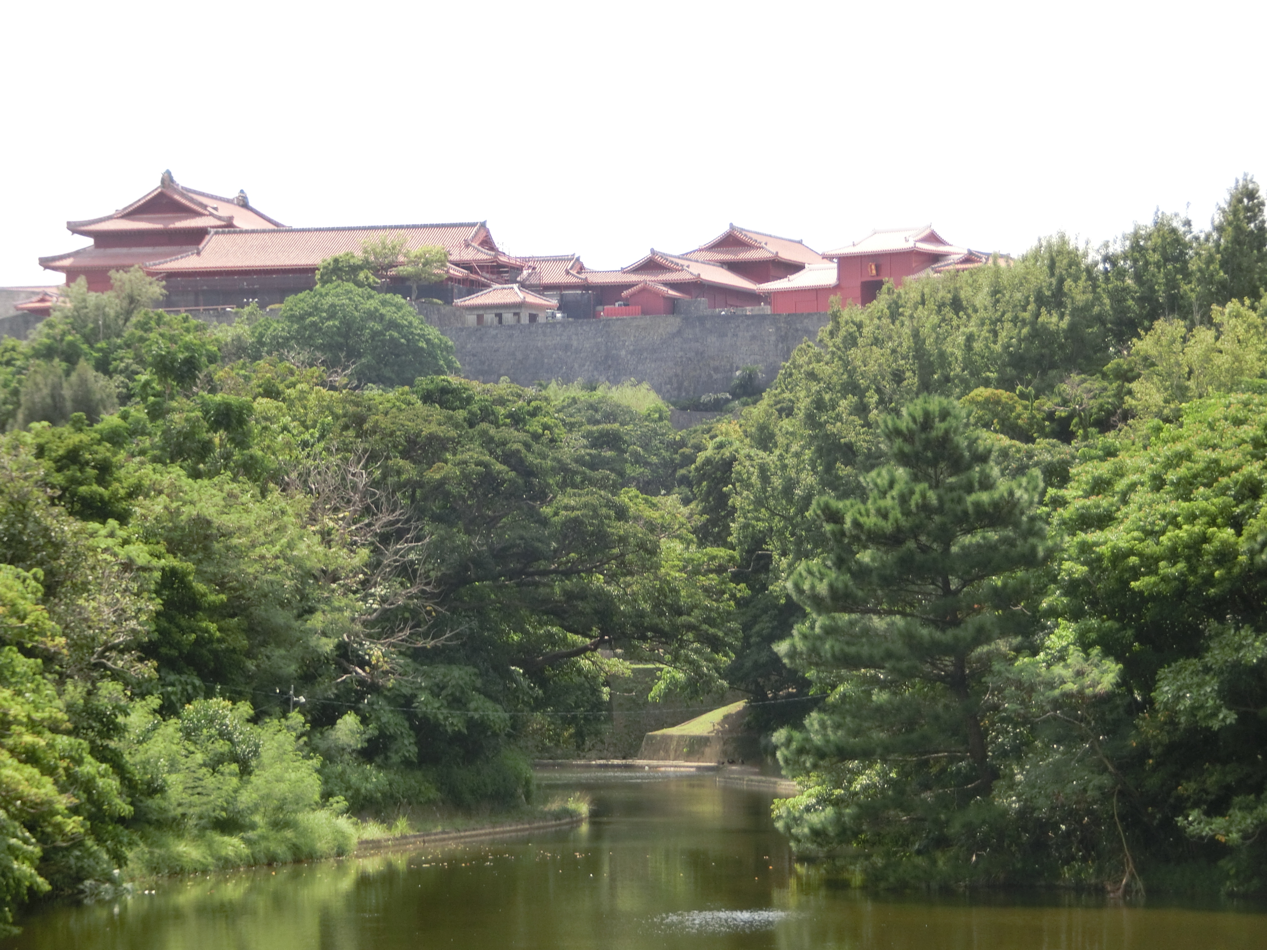 Ryutan Pond and Shuri Castle